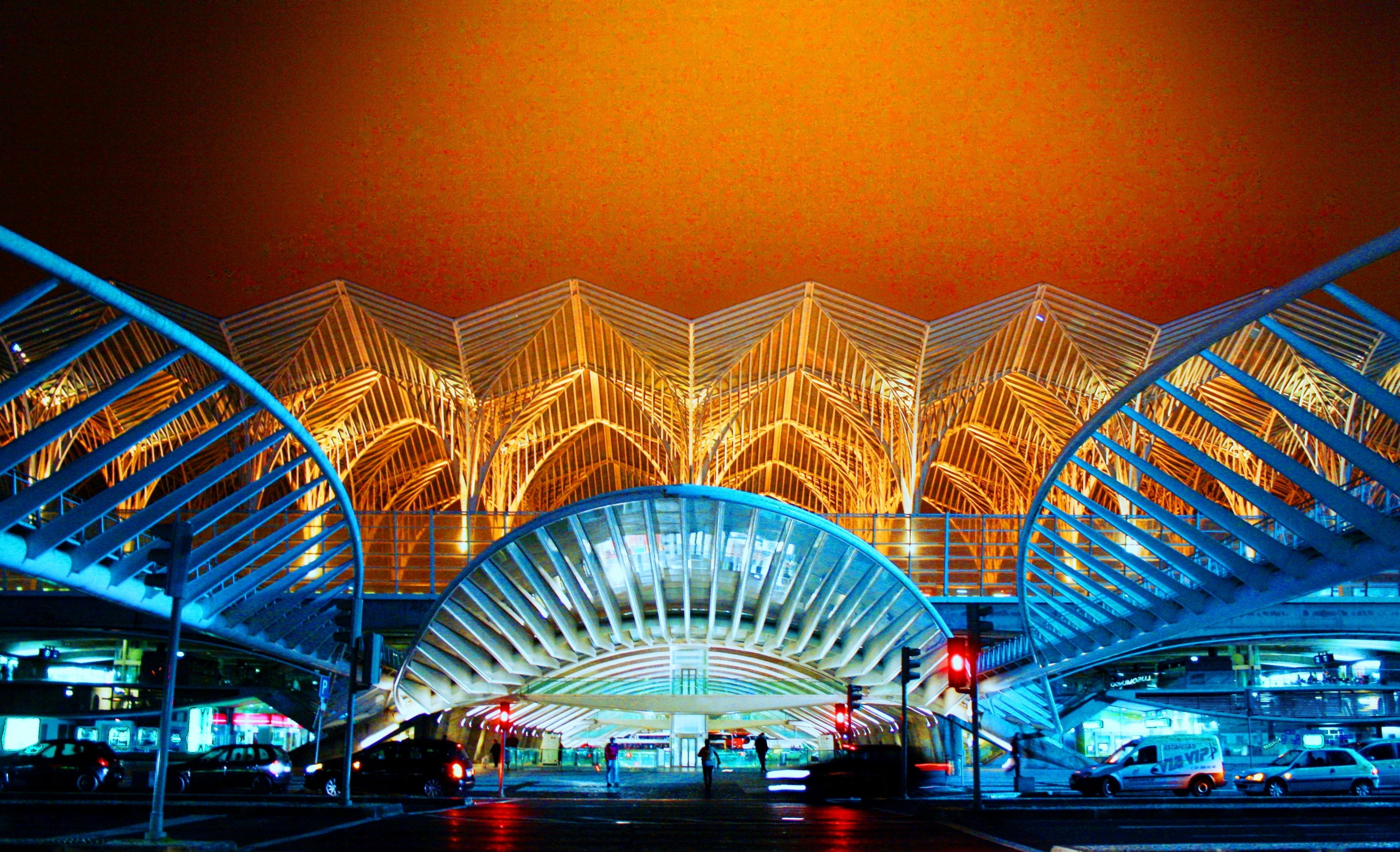 Gare do Oriente train station, Lisbon, Portugal